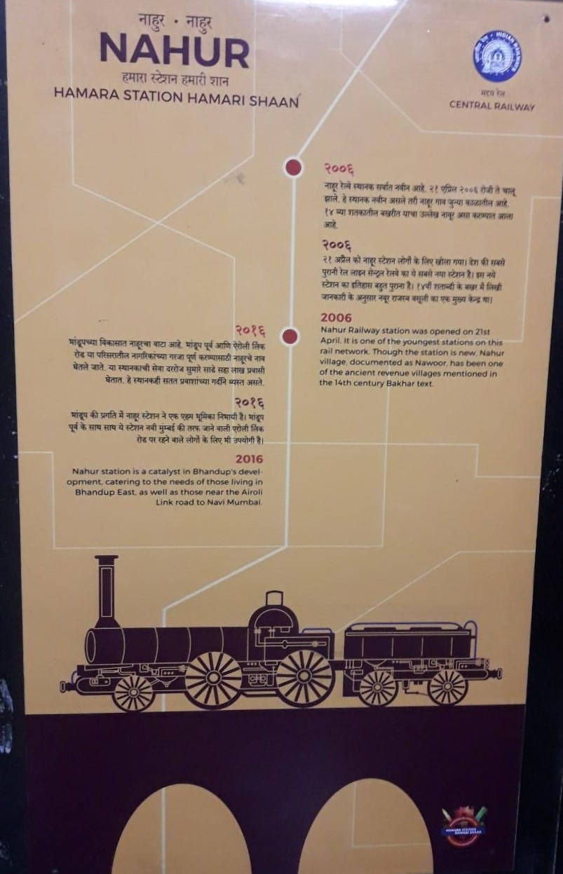 Board Showing History of Nahur Station Banner